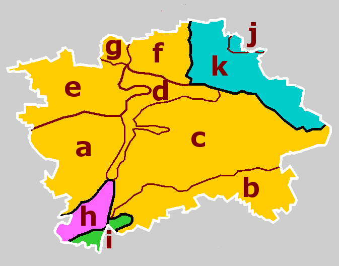 Geomorphological subdivisions in territory of Prague, capital of the Czech Republic.